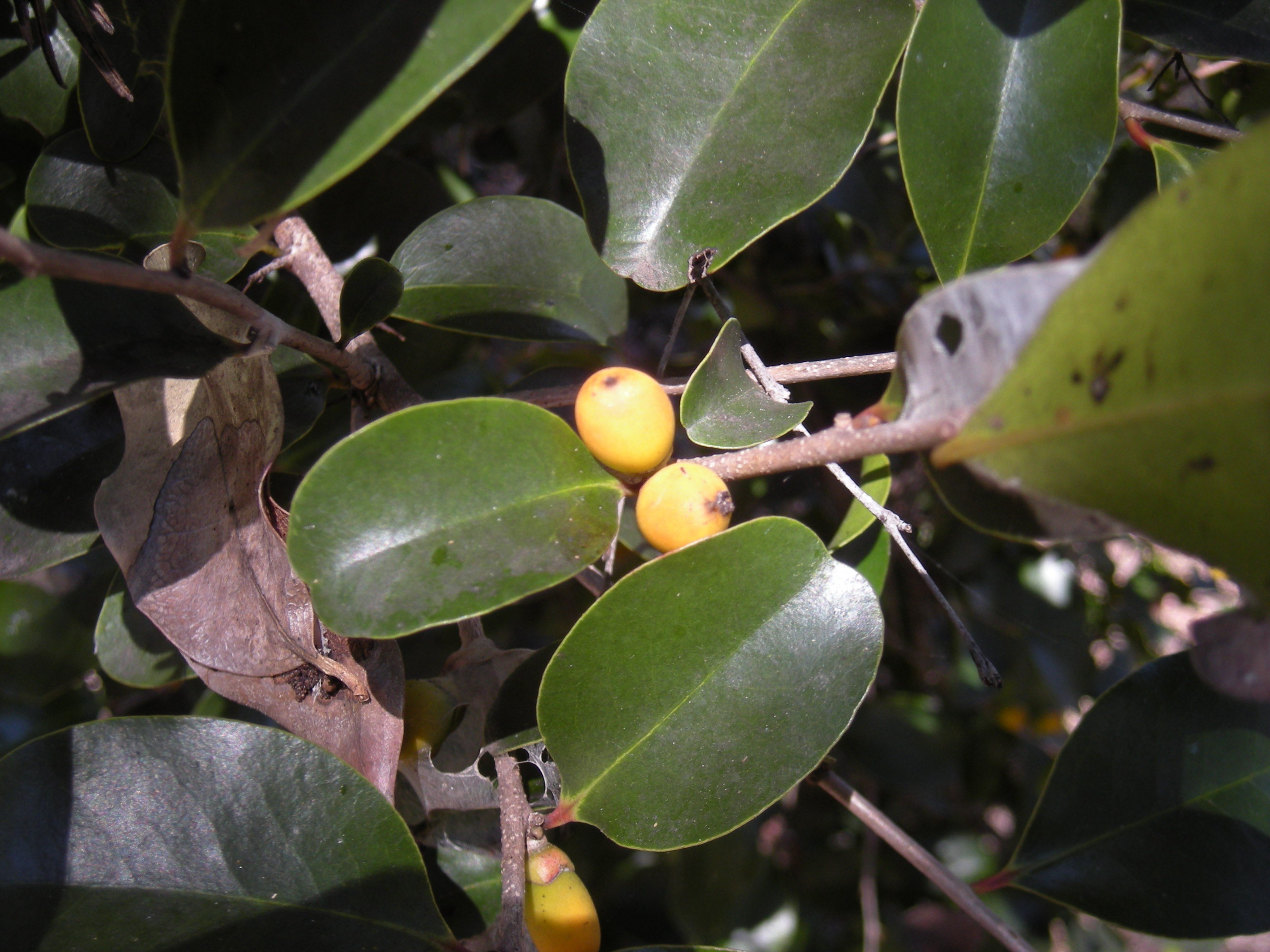 Diospyros geminata fruit and foliage, Mount Archer National Park, Rockhampton